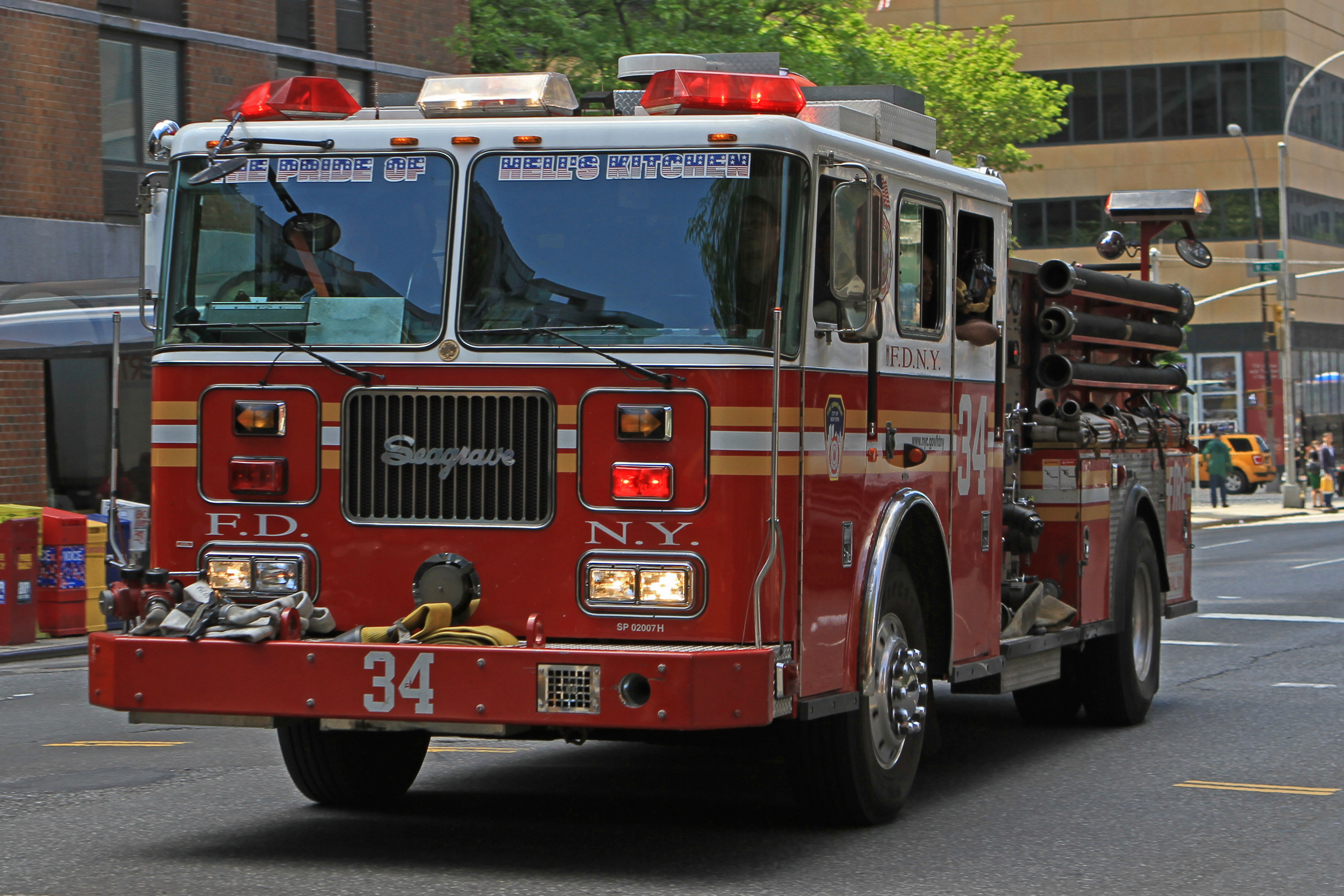 FDNY - Engine 34 in action